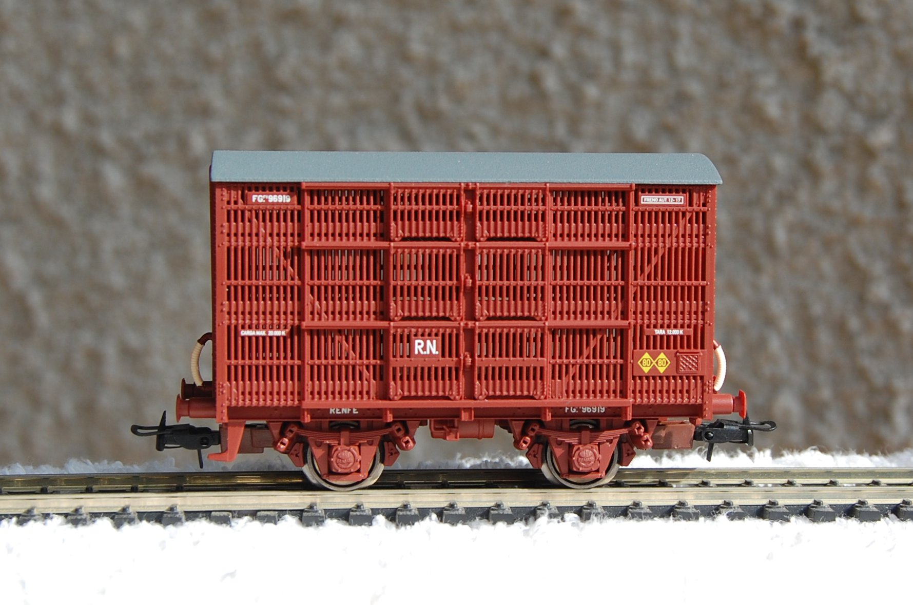 Scale model of a spanish gauge cattle wagon by Electrotren.